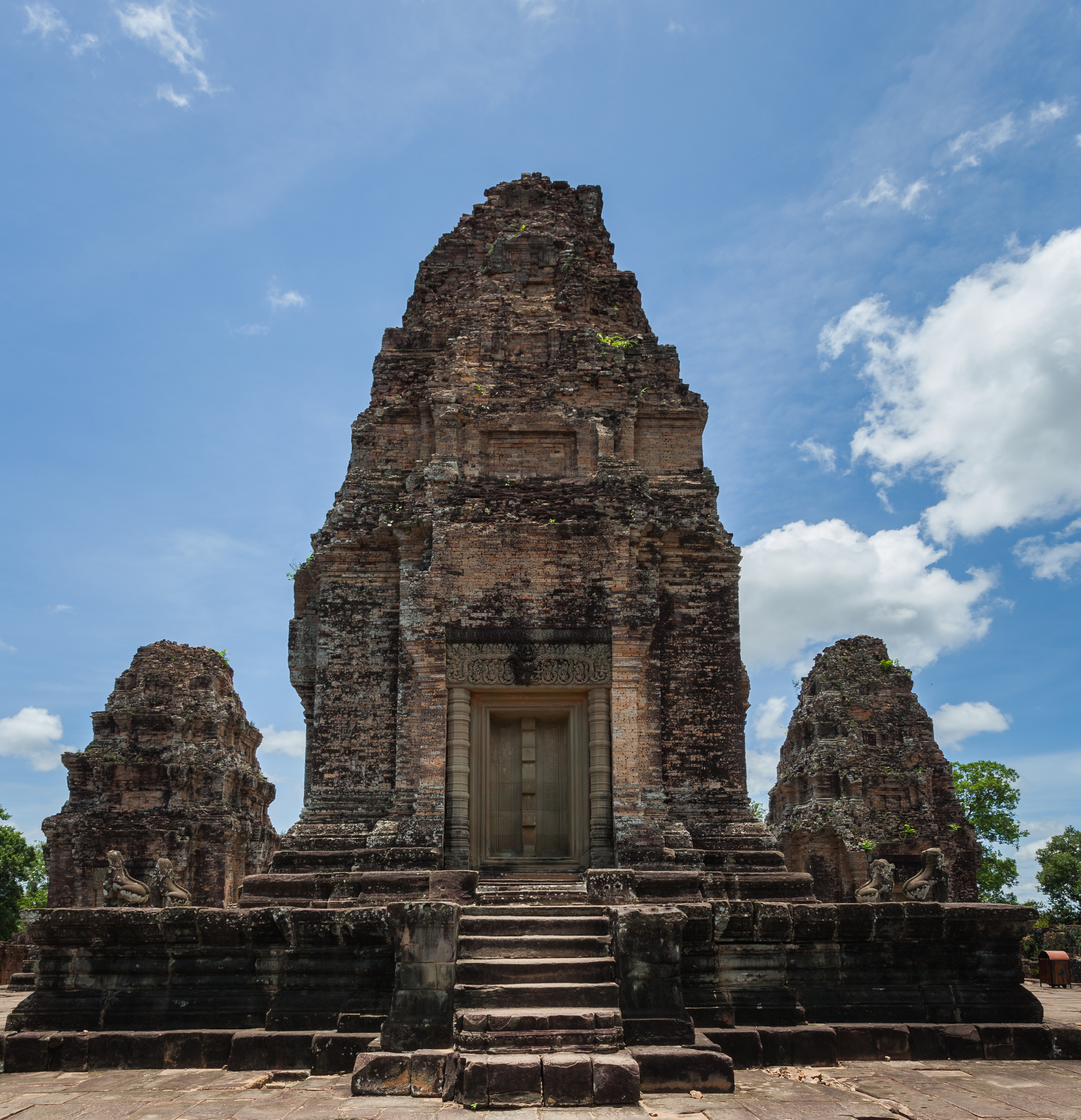 Mebon Oriental, Angkor, Cambodia